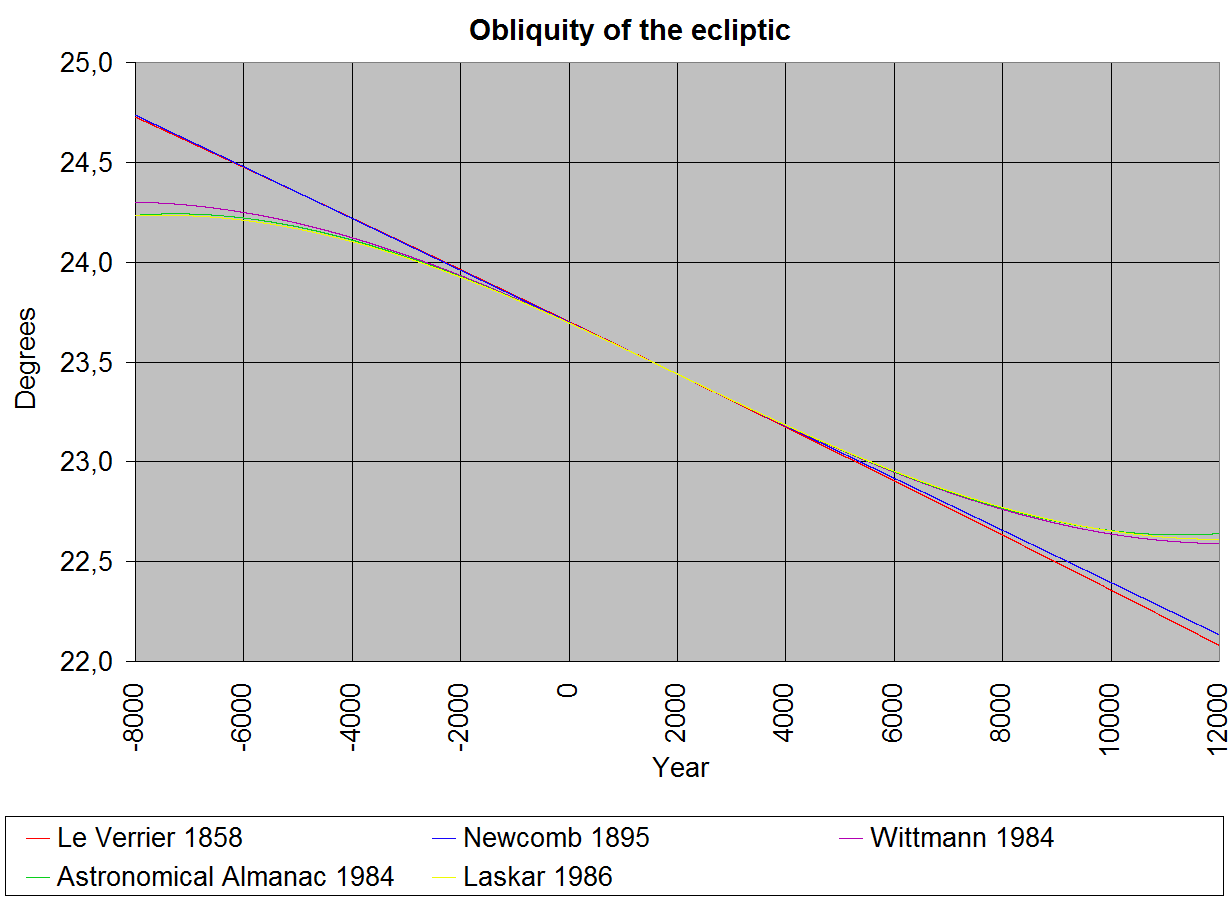 Obliquity of the ecliptic, calculated according the theories of Le Verrier (1858), Newcomb (1895), Wittmann (1984), Astronomical Almanac (1984) und Laskar (1986).